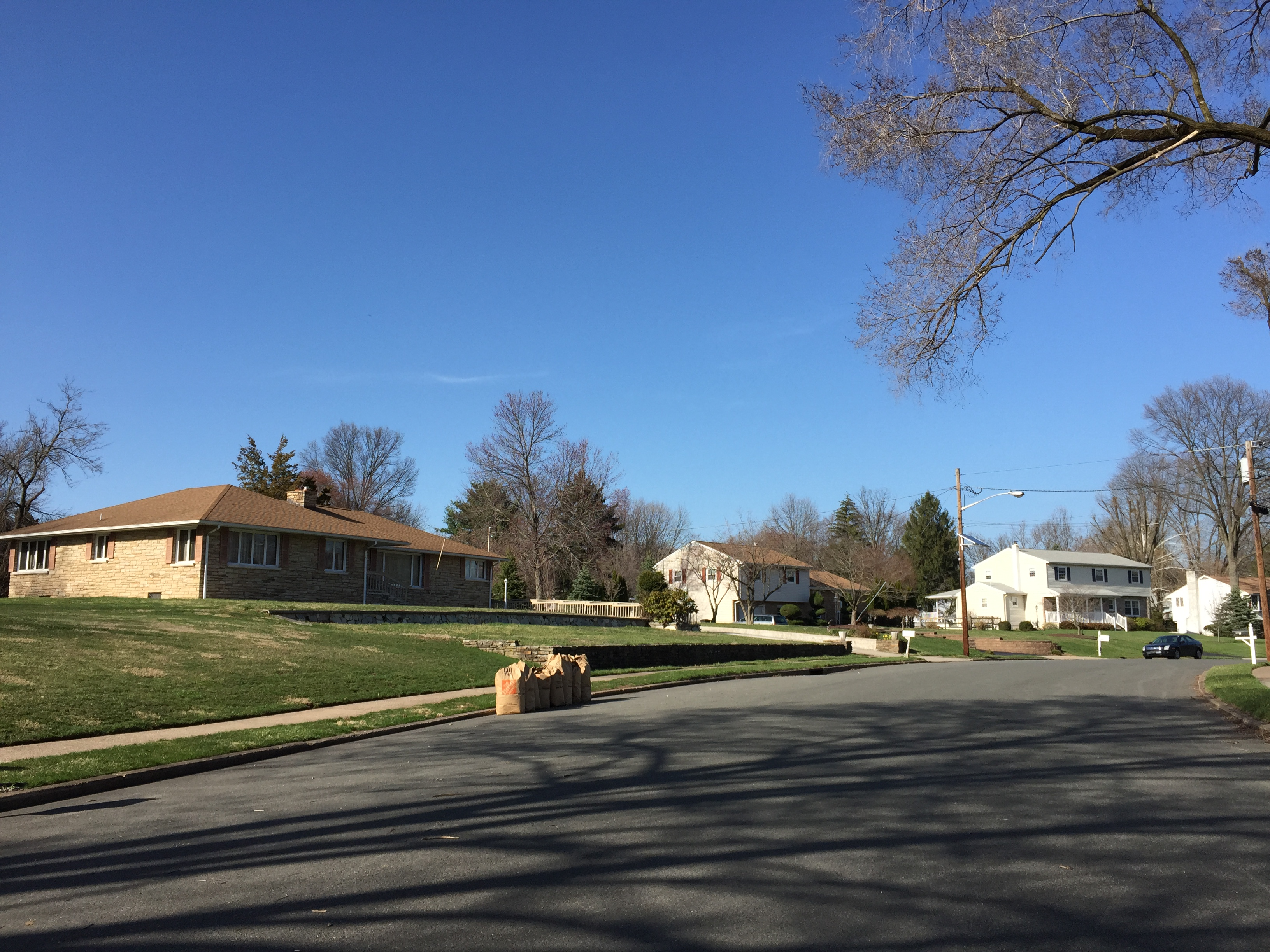 Homes along Malaga Drive in the Shabakunk Hills section of Ewing, New Jersey